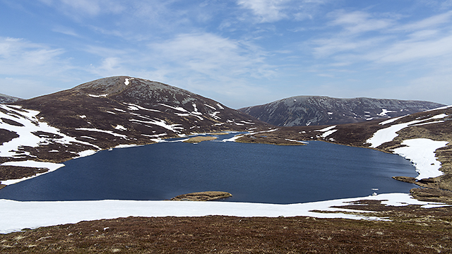 Depicted place: Loch nan Eun